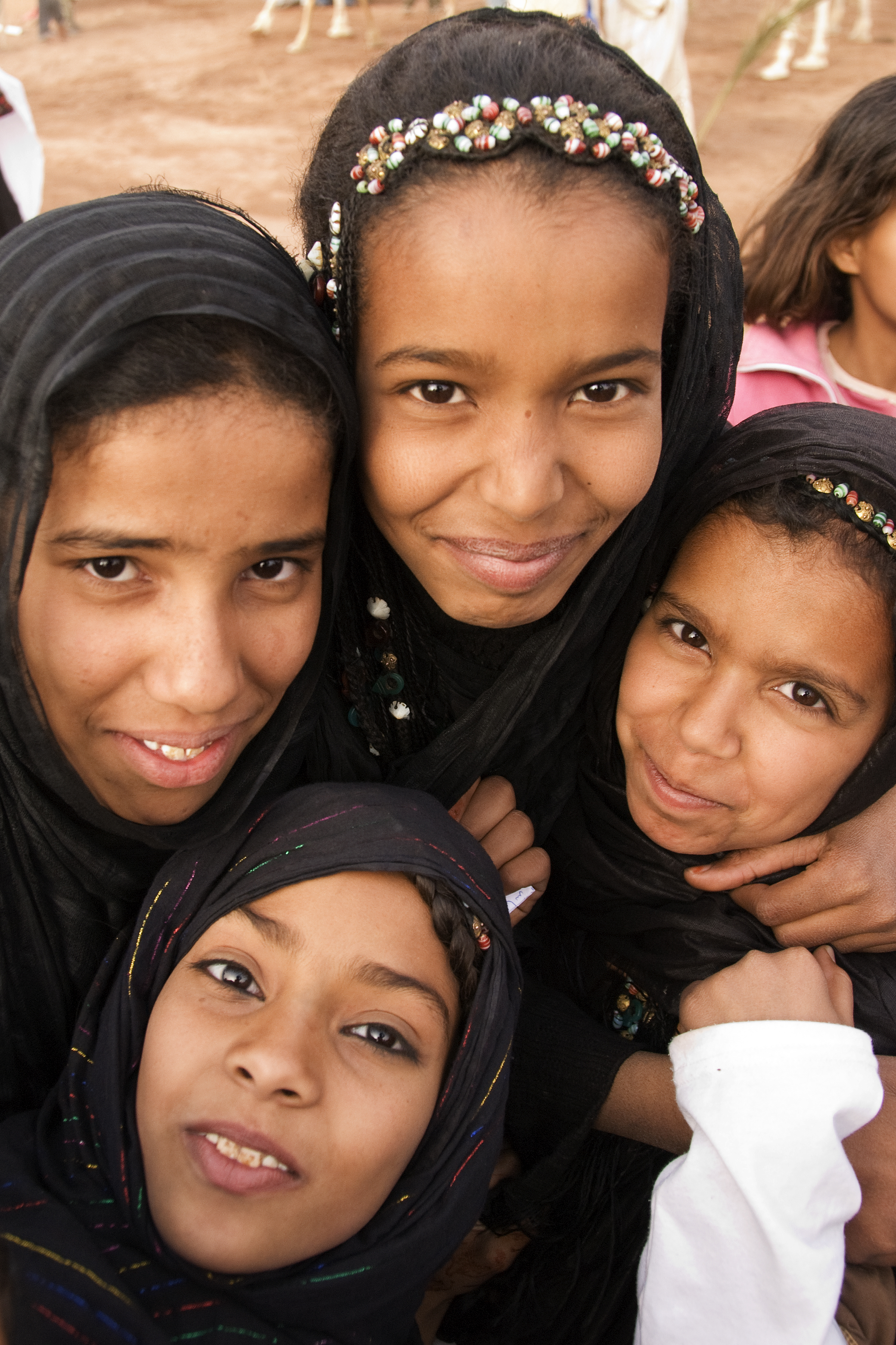 The whole set from Morocco